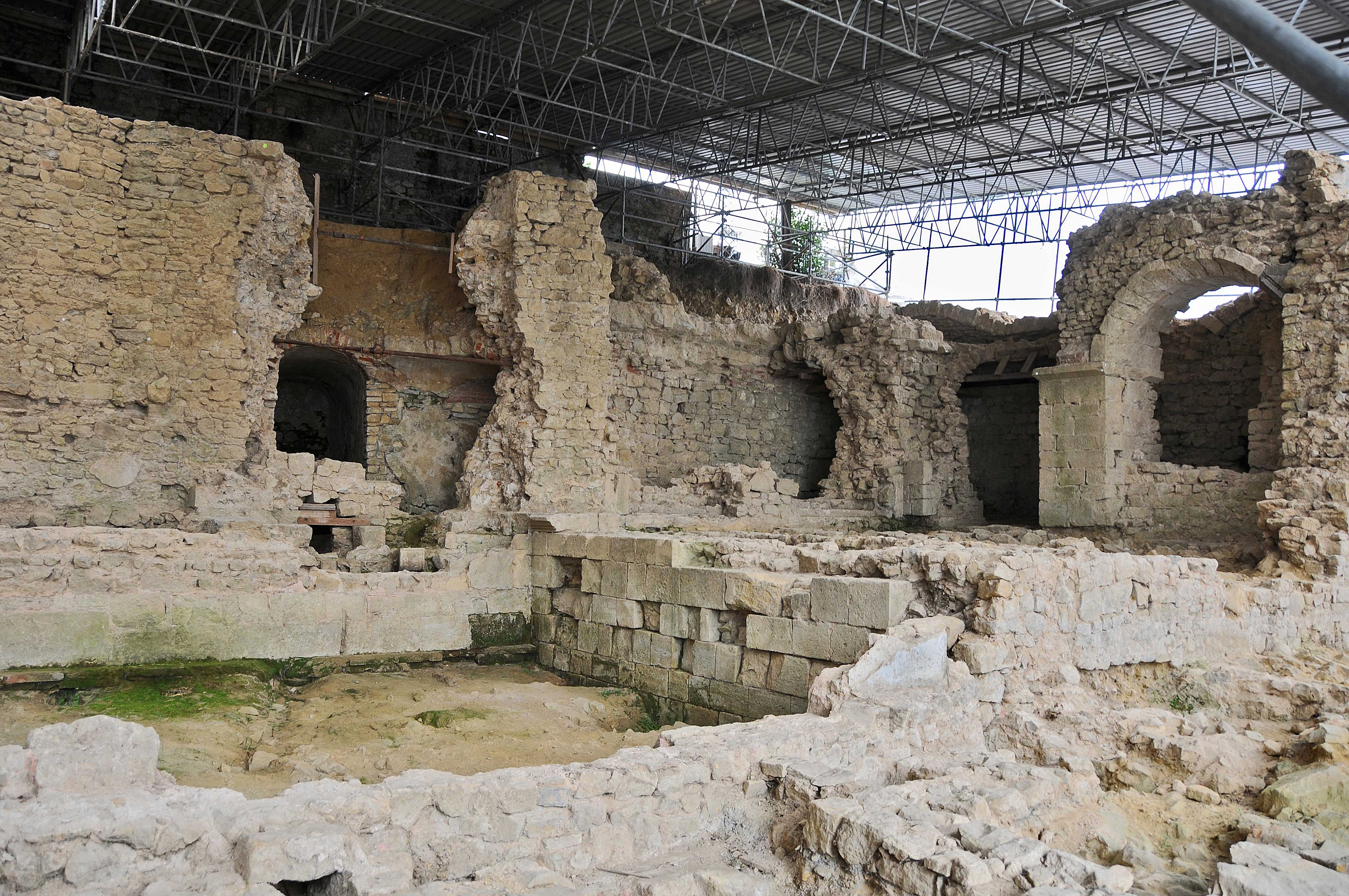 Luxembourg City: ruins of Mansfeld castle in Clausen.